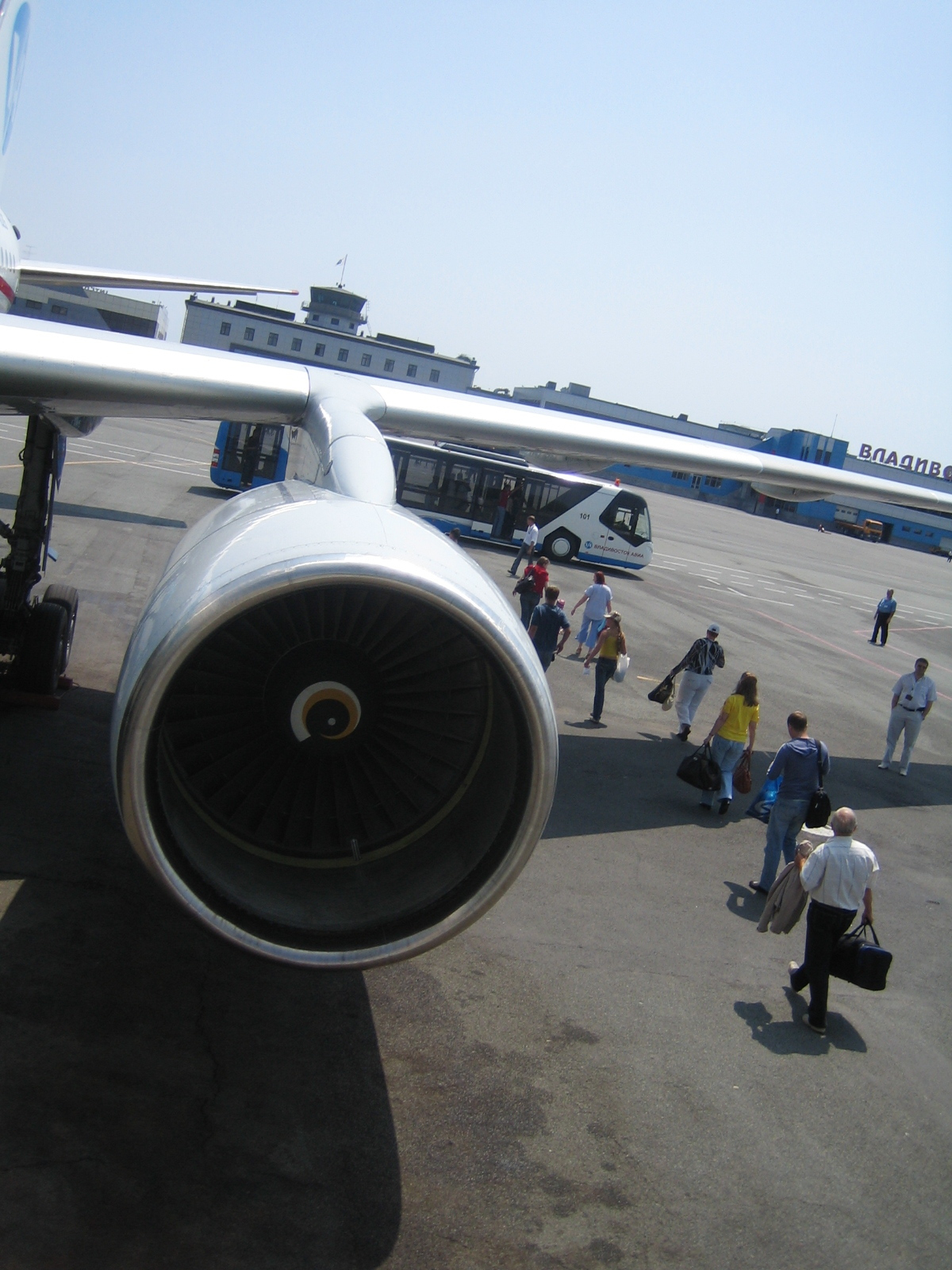 Aircraft engine fan PS-90A at a Tupolev Tu-204-300 in Vladivostok.